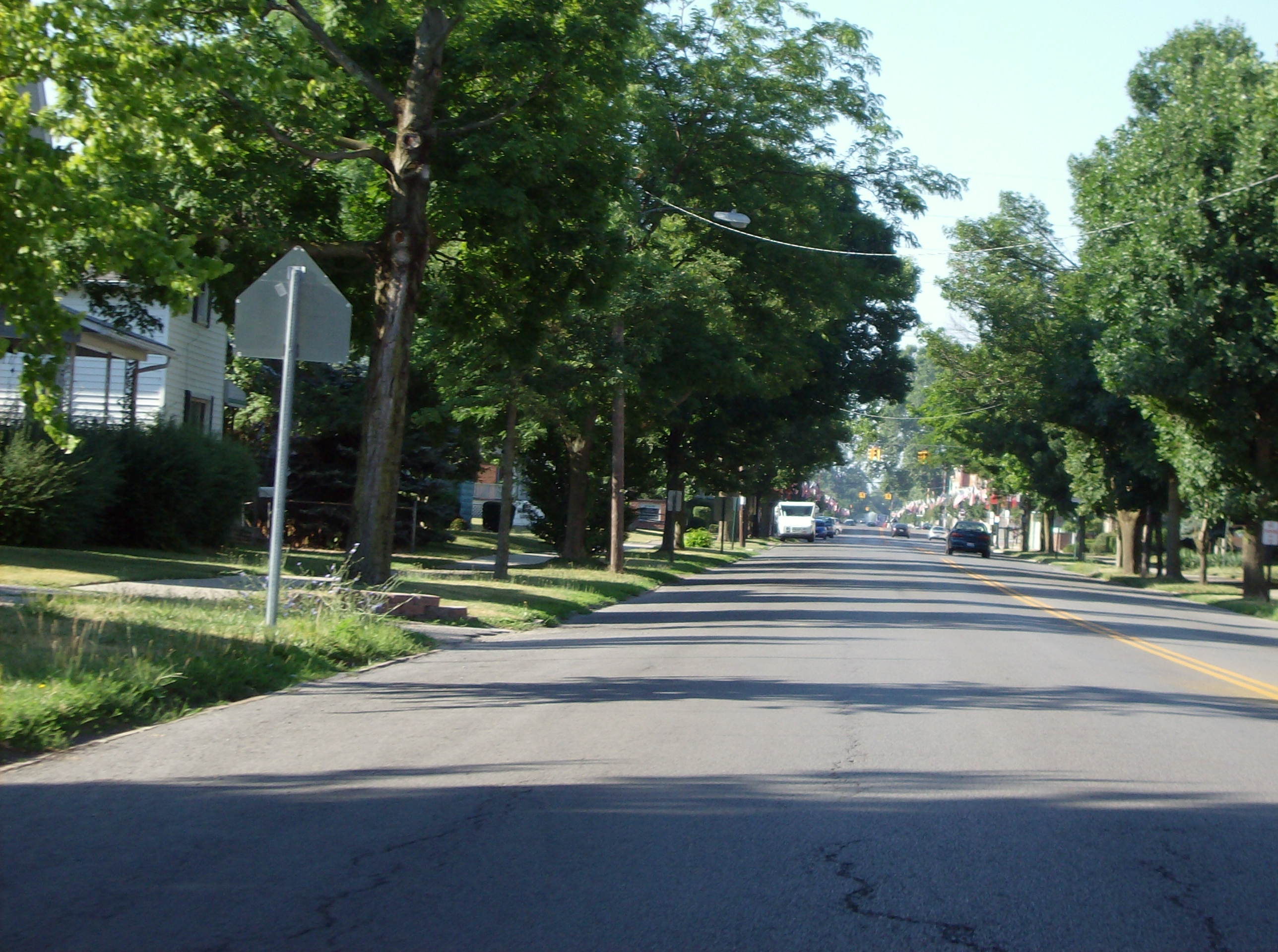 Looking southward along State Route 235 in Ada, Ohio, Ohio, United States.